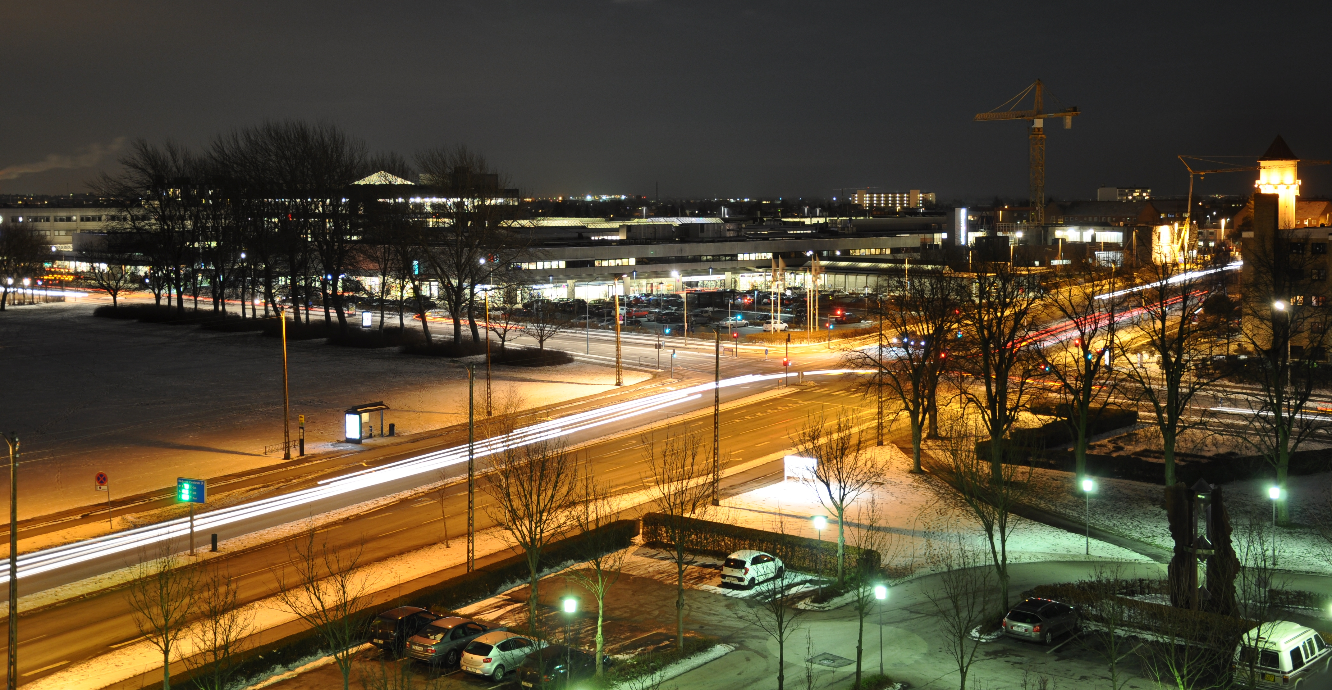 The junction of Tårnvej and Rødovre Parkvej in Rødovre as seen from Langhuset on a winter evening. Left hand side: The snow-covered turf before the town hall. Middle section: The shopping mall Rødovre Centrum. Right hand side: The illuminated water tower.